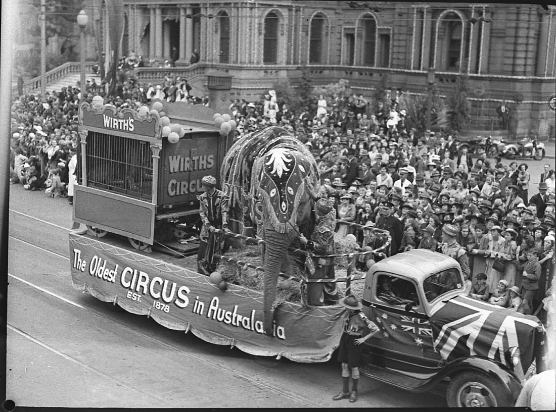 1938 photo of the Wirths circus float in the Industrial Procession by Sam Hood.